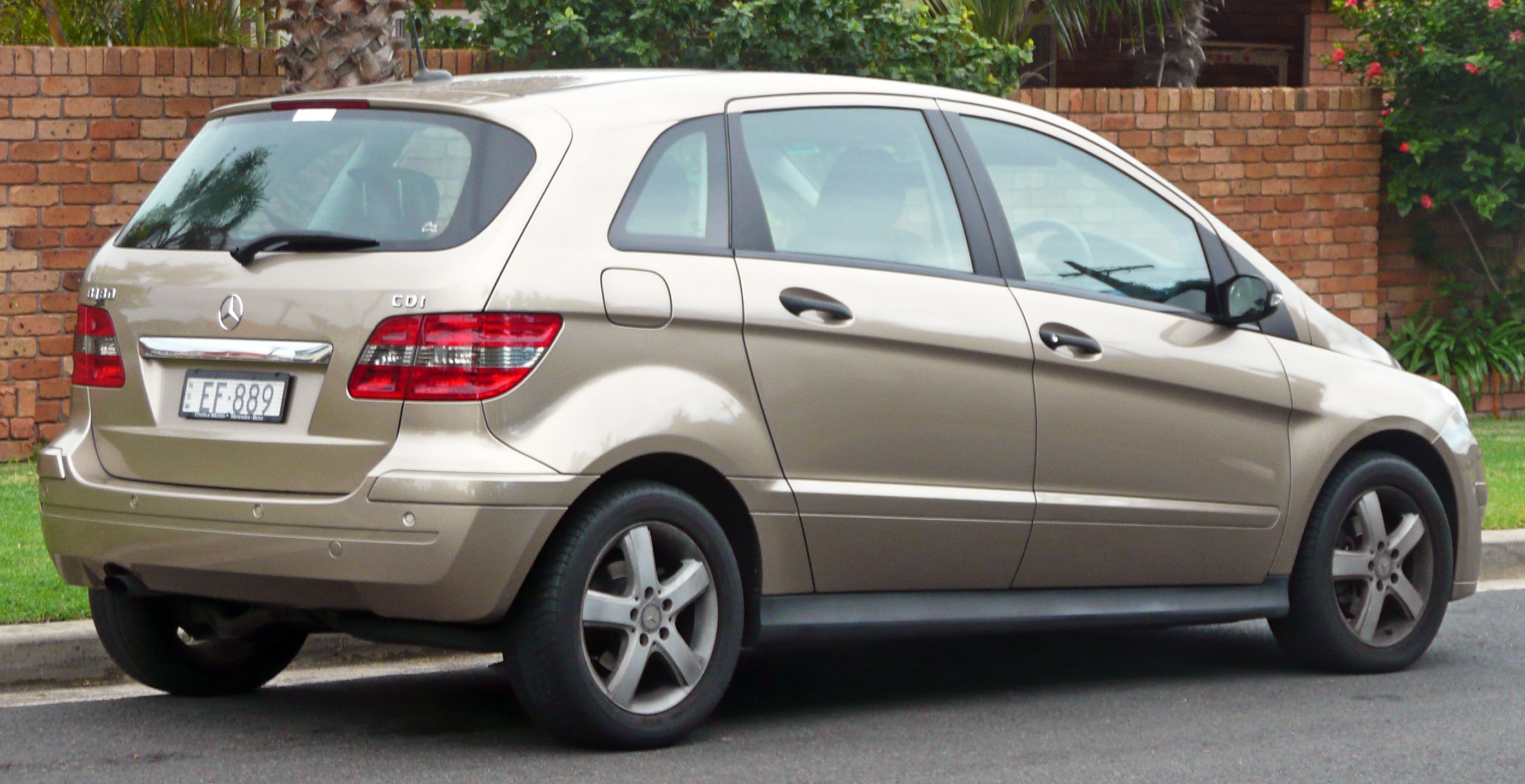 2007 Mercedes-Benz B 180 CDI (W 245 MY07) hatchback. Photographed in Cronulla, New South Wales, Australia.